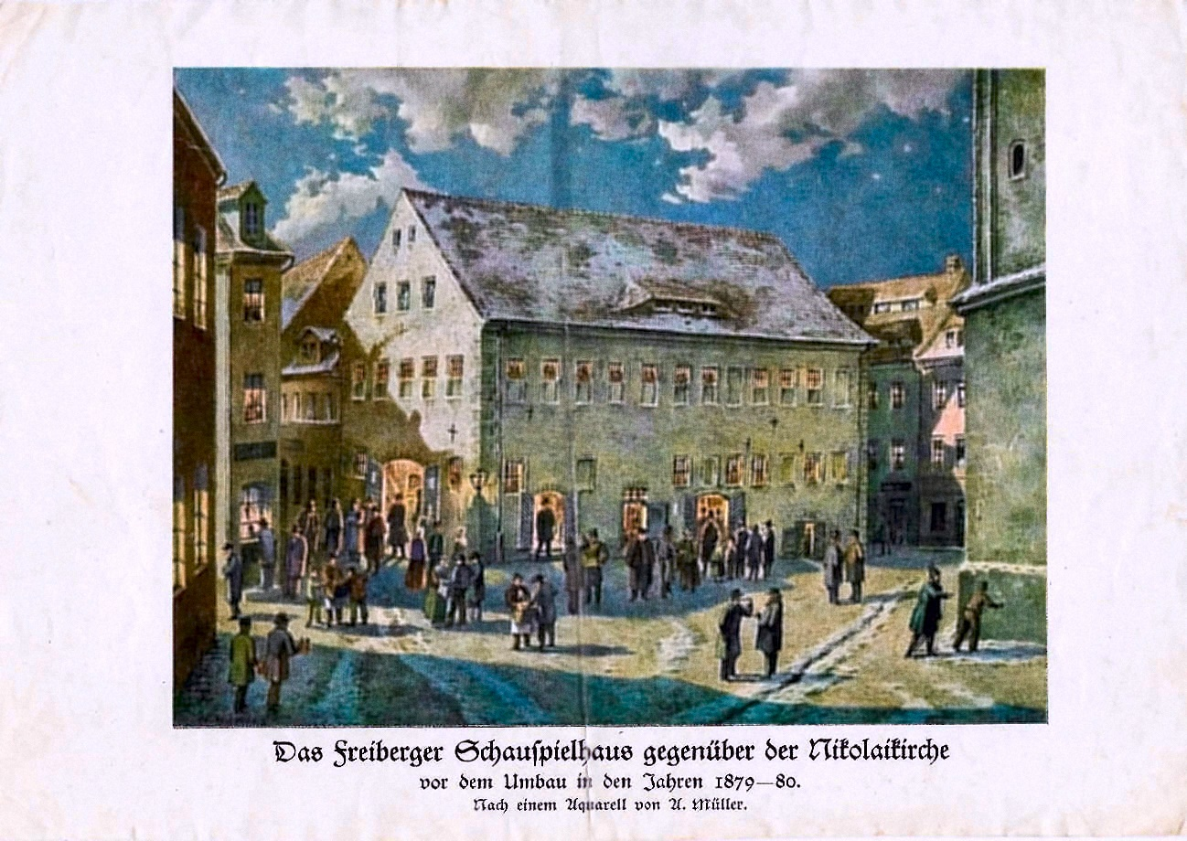 The Freiberg theatre vis-à-vis the Church St. Nikolai